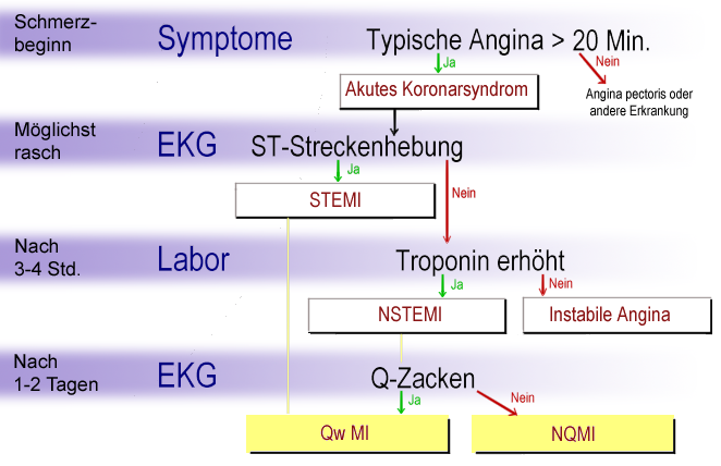 Abbreviations used for ACS (Acute coronary syndrome)